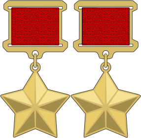 Two medals “Gold Star” of a “Hero of the Soviet Union” (two-foul Hero of USSR)